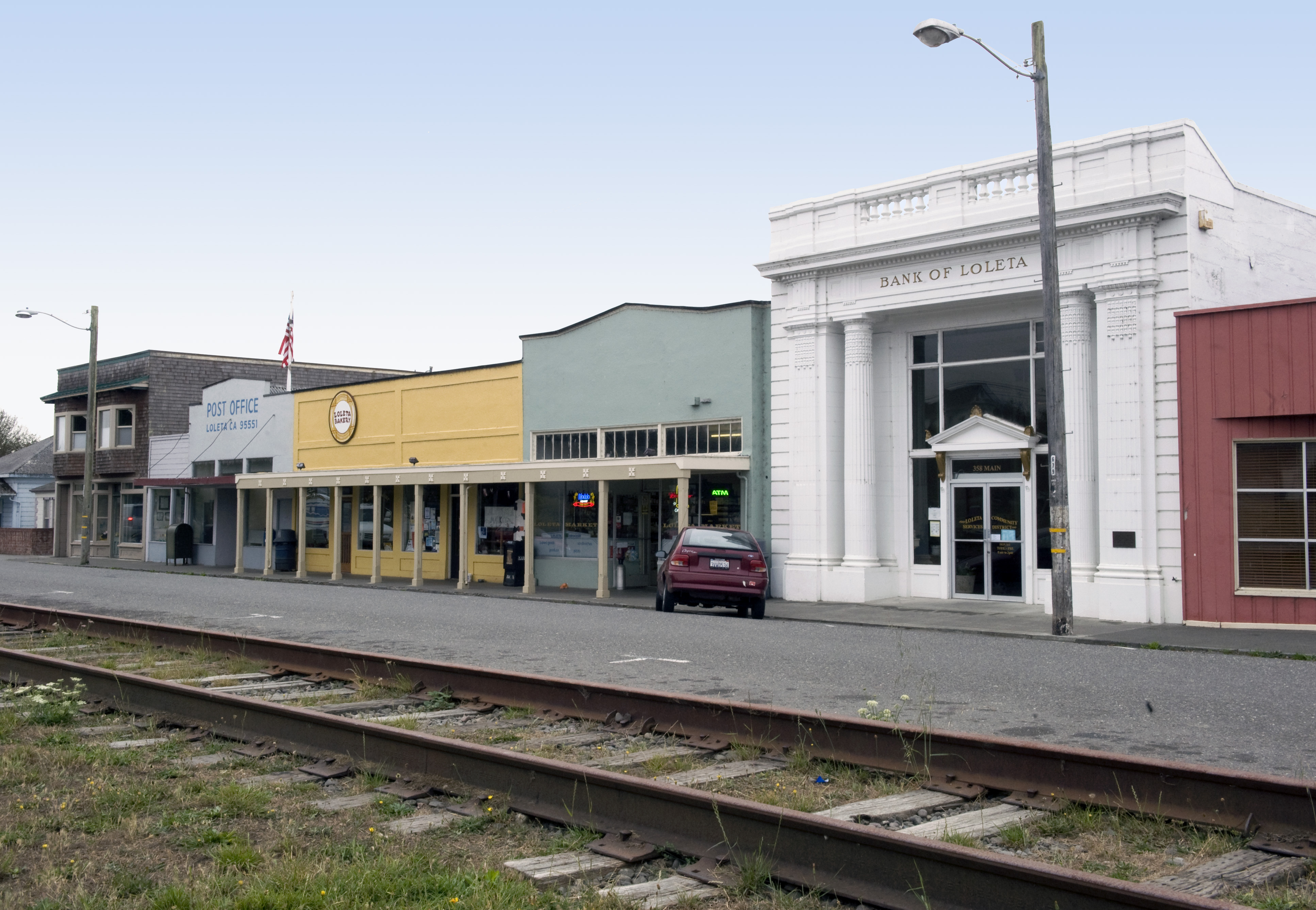 Bank of Loleta in Humboldt County, California. Listed on the National Register of Historic Places in 1985.